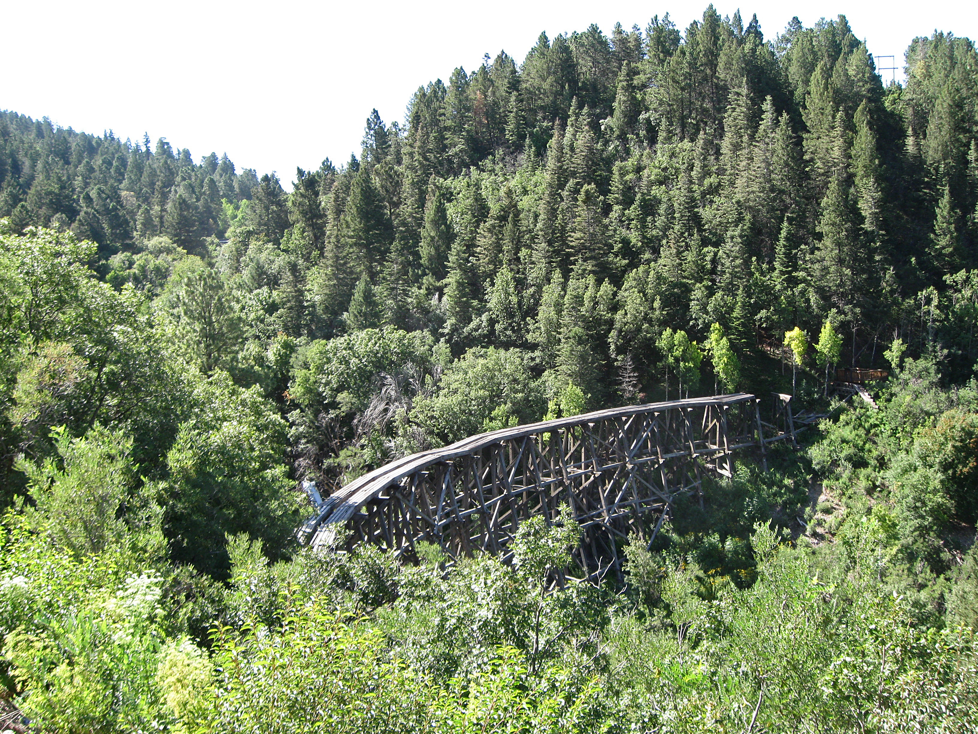 Mexican Canyon Trestle, located just northwest of Cloudcroft, New Mexico; photographed from an overlook on US Highway 82. The trestle was constructed in 1899 as part of the Alamogordo and Sacramento Mountain Railroad. On the National Register of Historic Places in Otero County, New Mexico, NRIS Item No. 79001543.